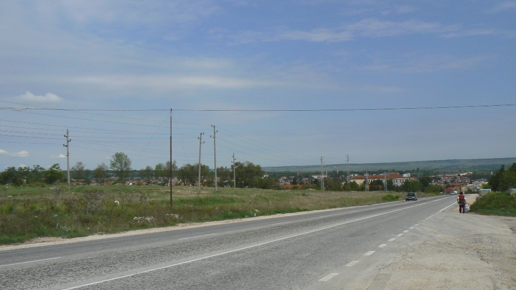 Lukovit (Bulgaria), as seen from the heights in the southern part of the town